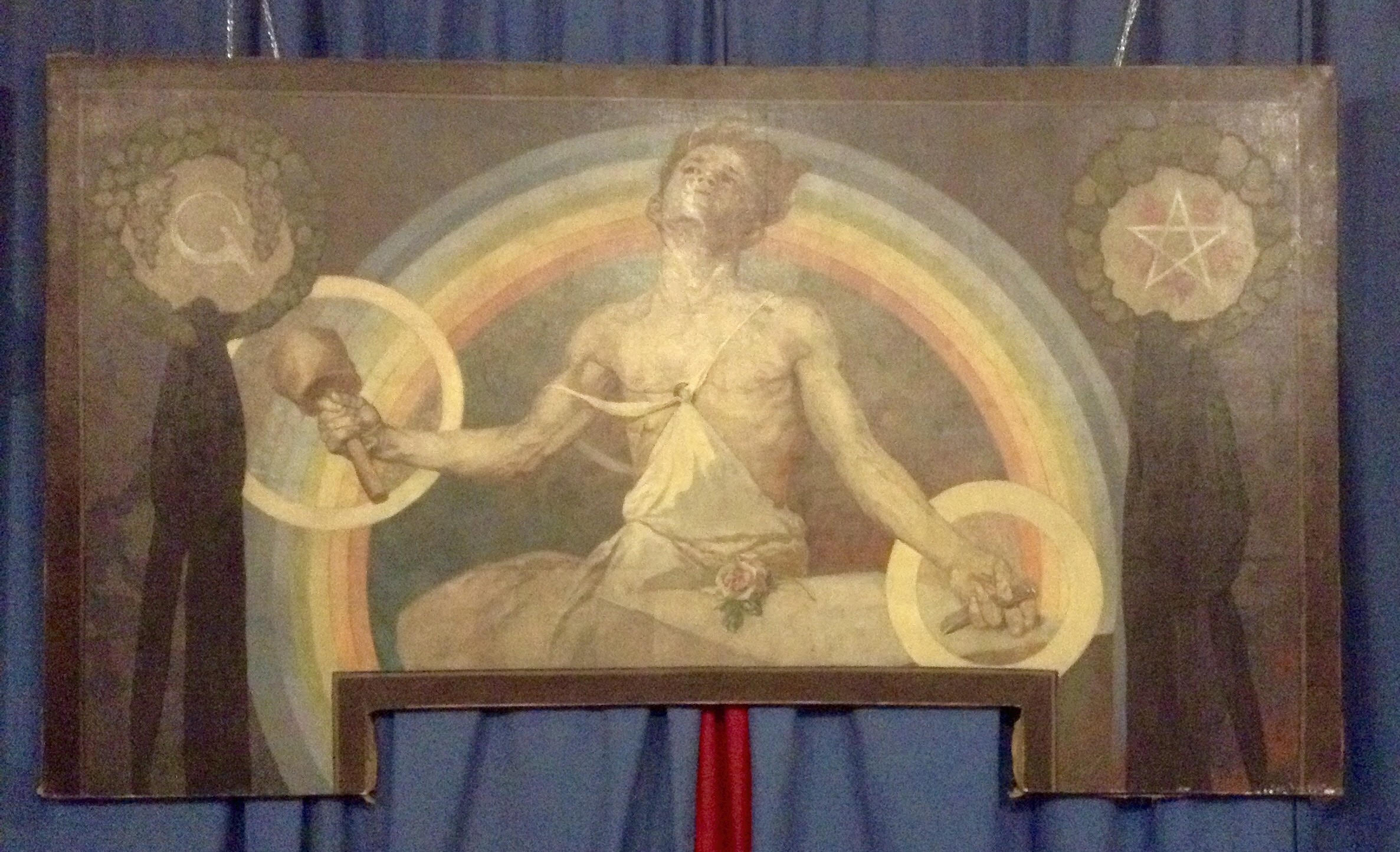 Apprentice free-mason by Alphonse Mucha